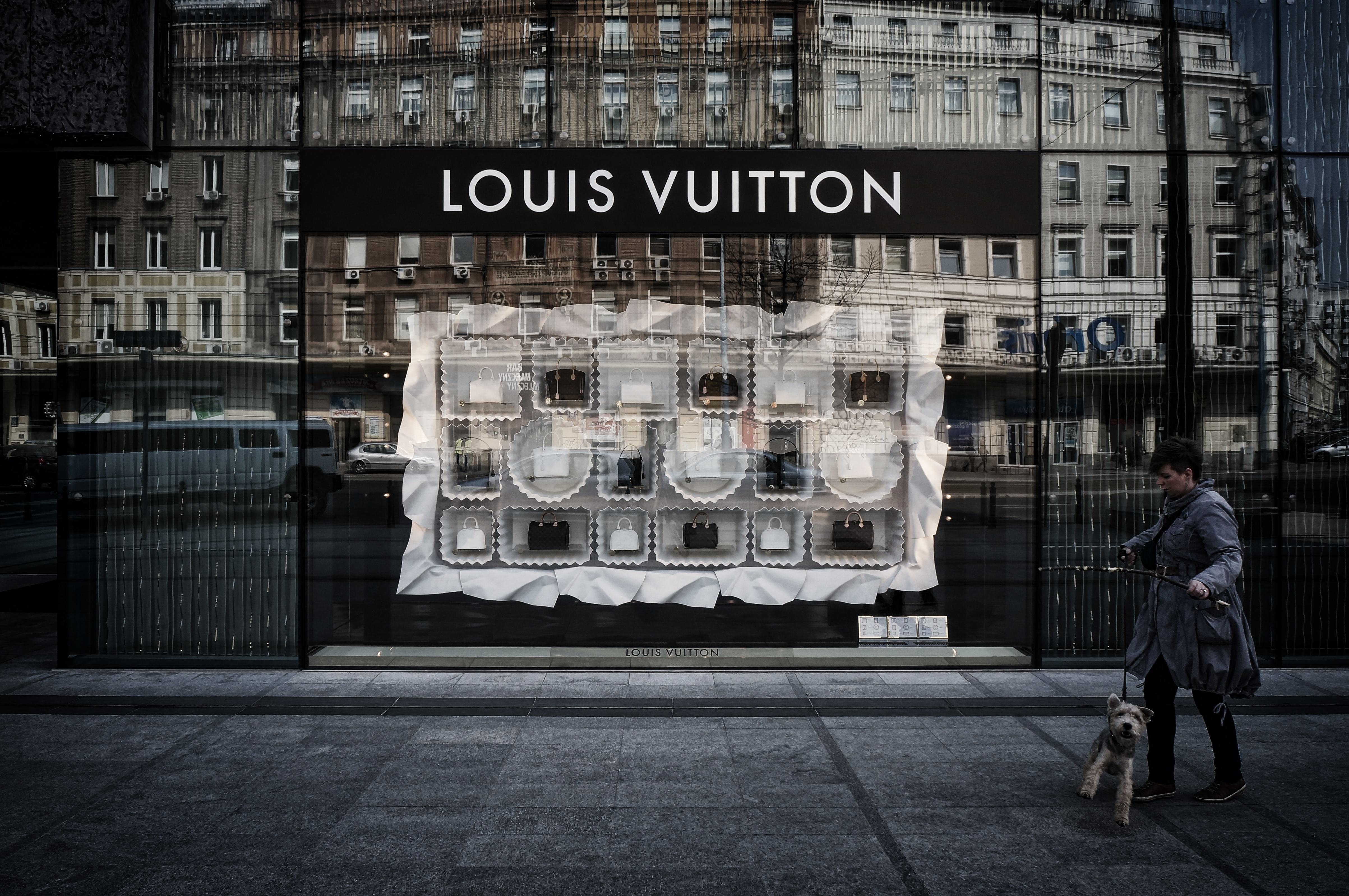 Wolf Bracka - Louis Vuitton